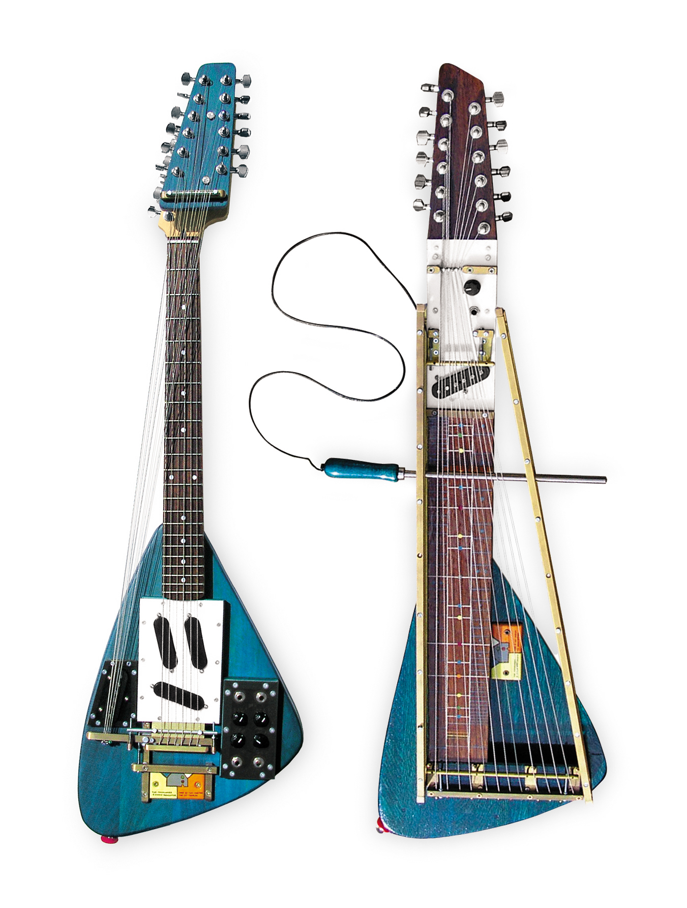 two guitars, built by myself